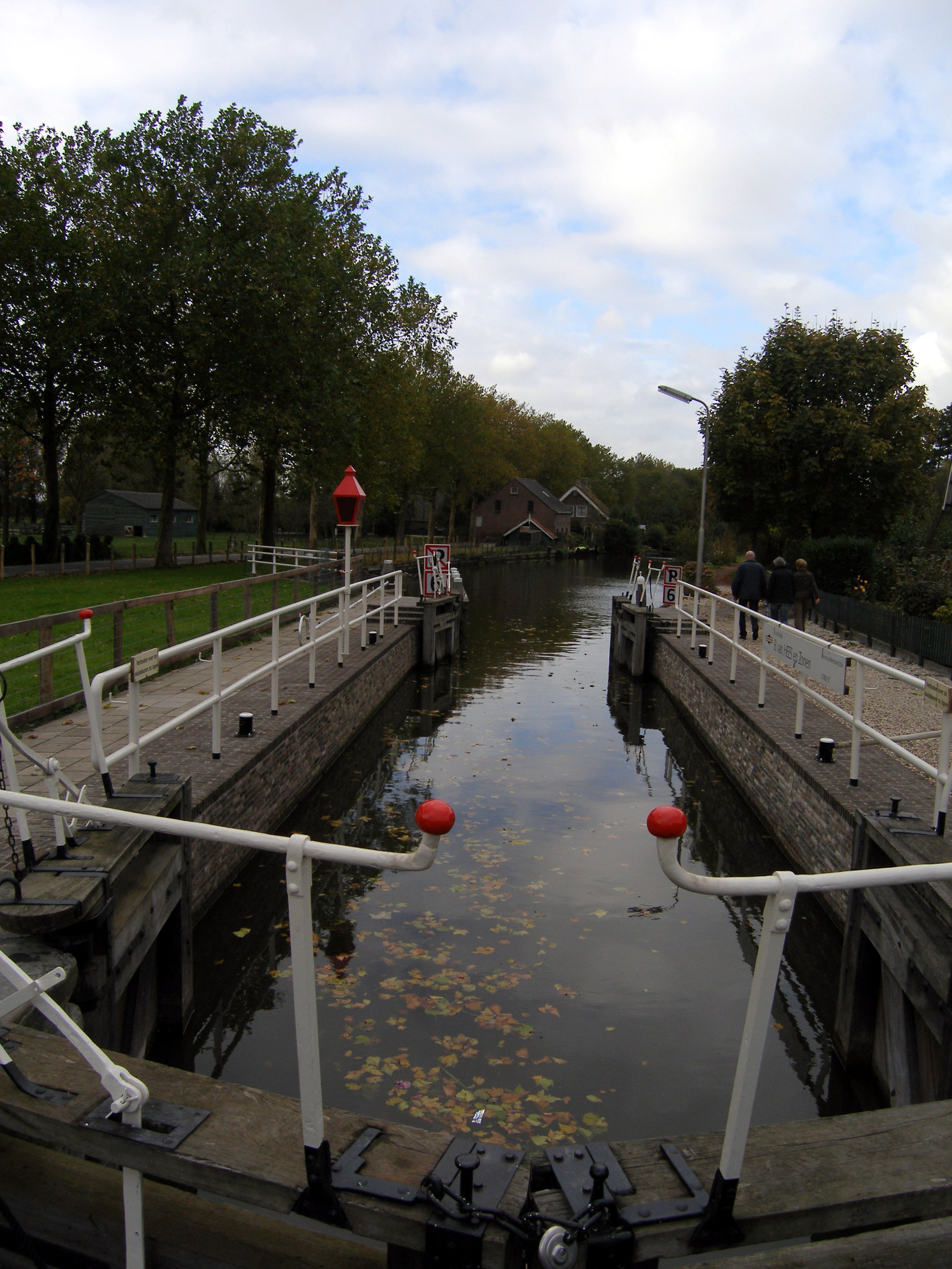 Haanwijkersluis, a canal lock in Harmelen, Oude Rijn river. Built 1880-1900. Its national-monument number is 517421.